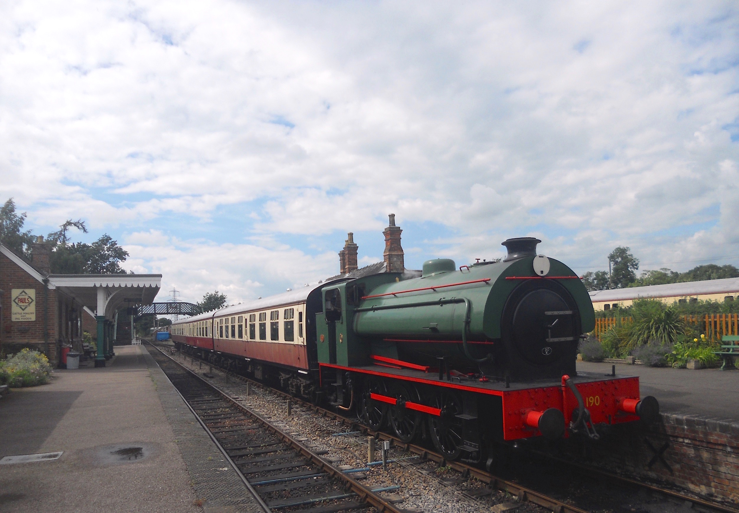 Hunslet 0-6-0ST Austerity WD190 and train at Castle Headingham on the Colne Valley Railway